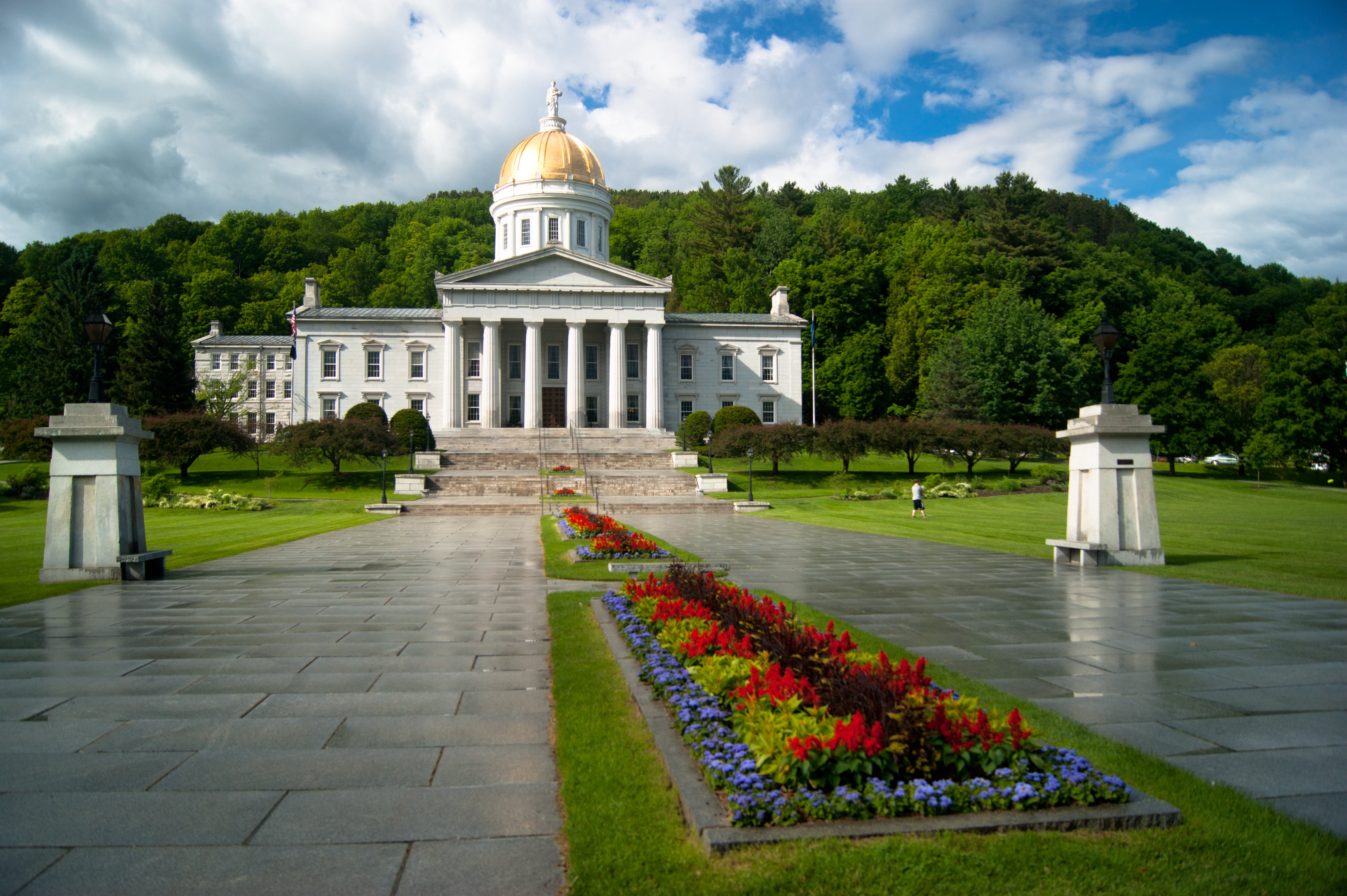 Vermont Statehouse